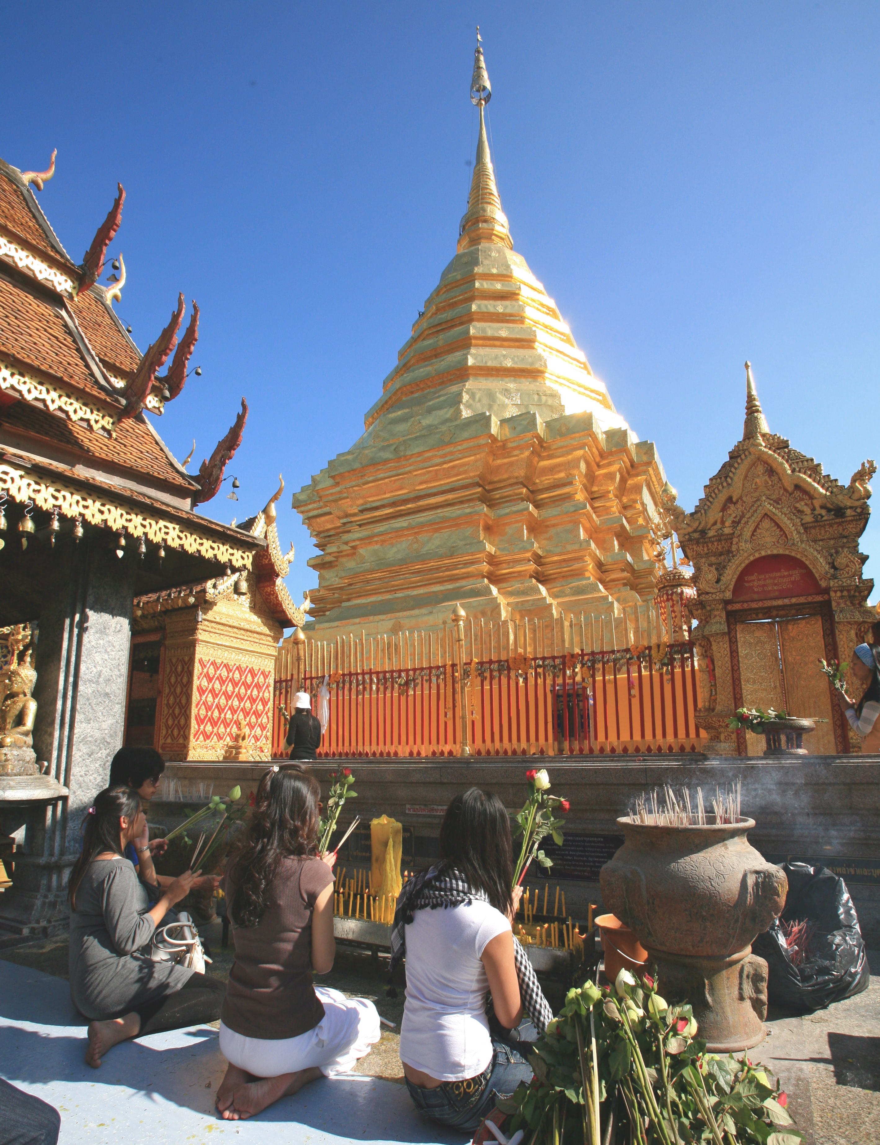 Worshippers making offerings of incense, flowers and candles at Wat Phra That Doi Suthep, east of Chiang Mai